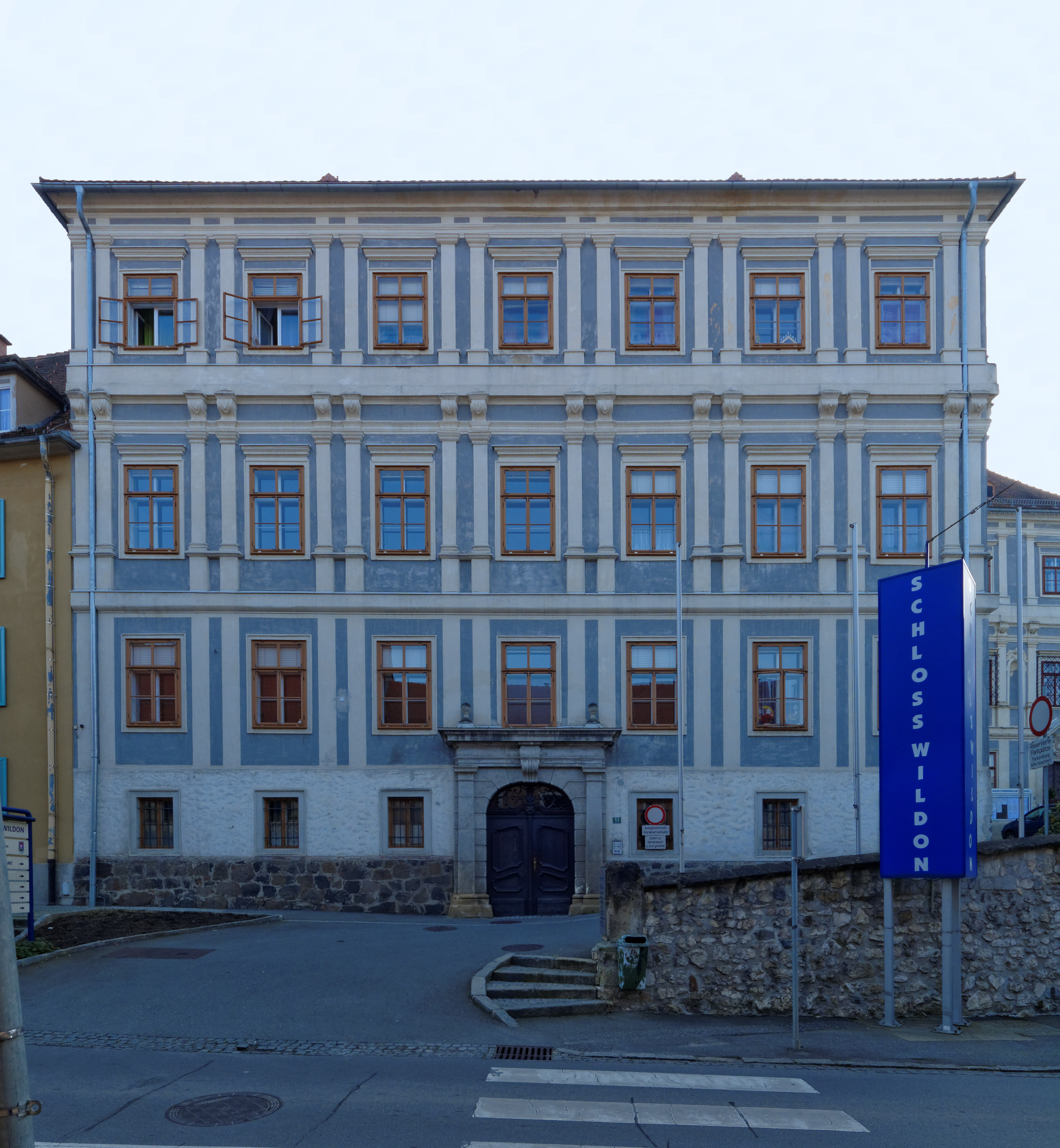 Former hospital in Wildon, Styria, Austria